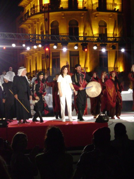 Majida El Roumi at the Downtown of Beirut